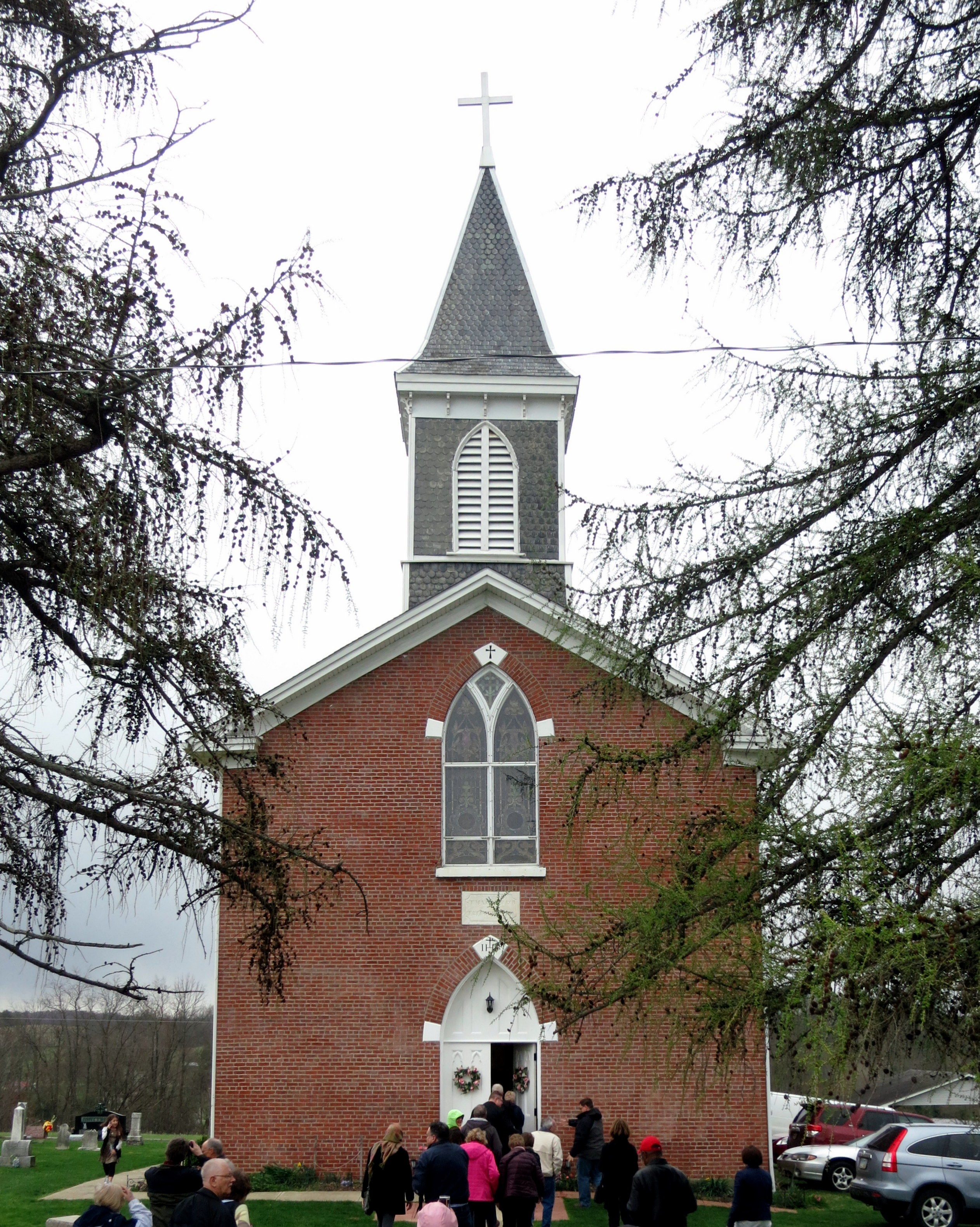 Church of the Nativity of the Blessed Virgin Mary (Mattingly Settlement, Ohio) - exterior